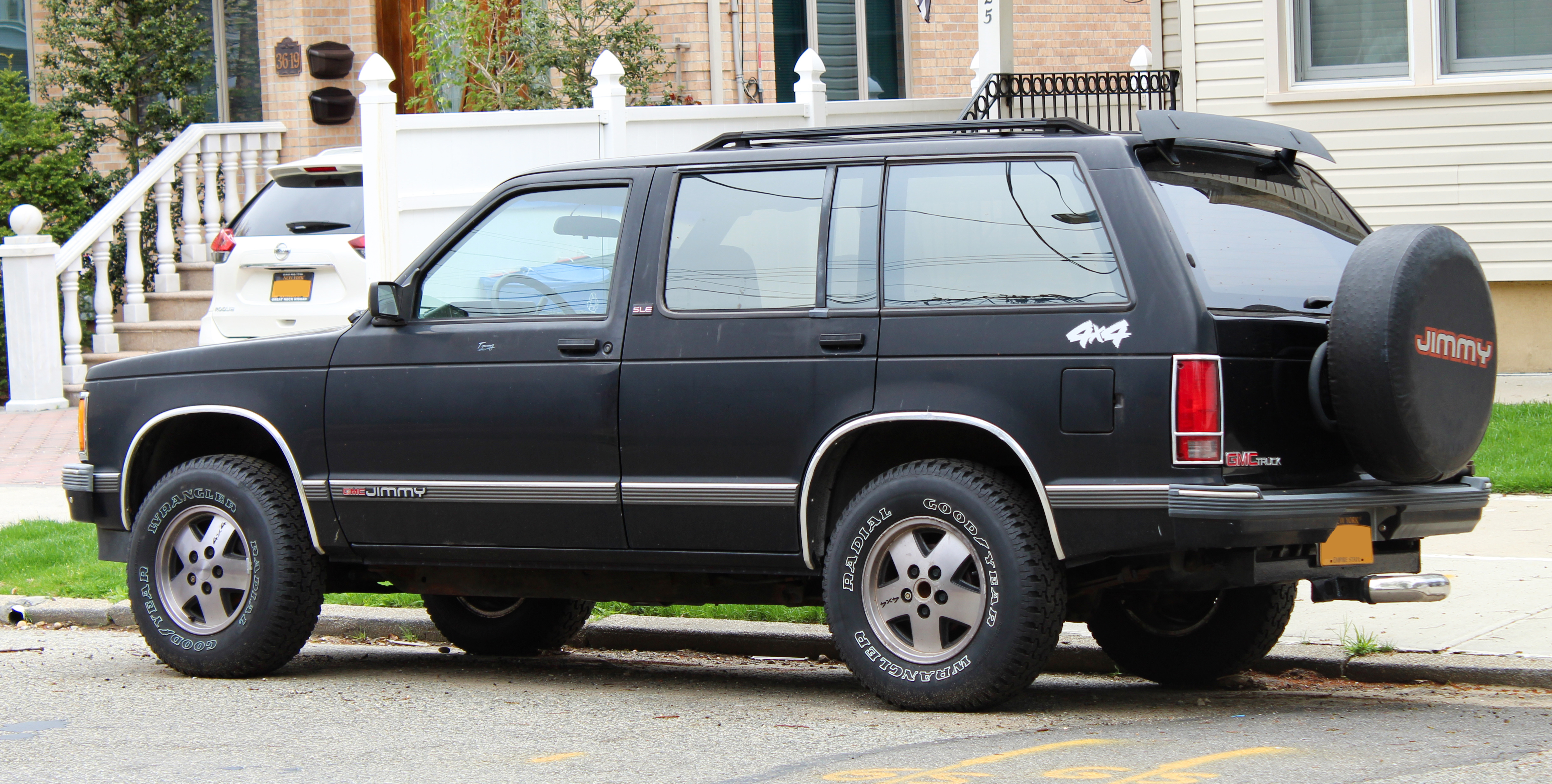 A 1991 GMC S-15 Jimmy Bayside, Queens, New York, USA